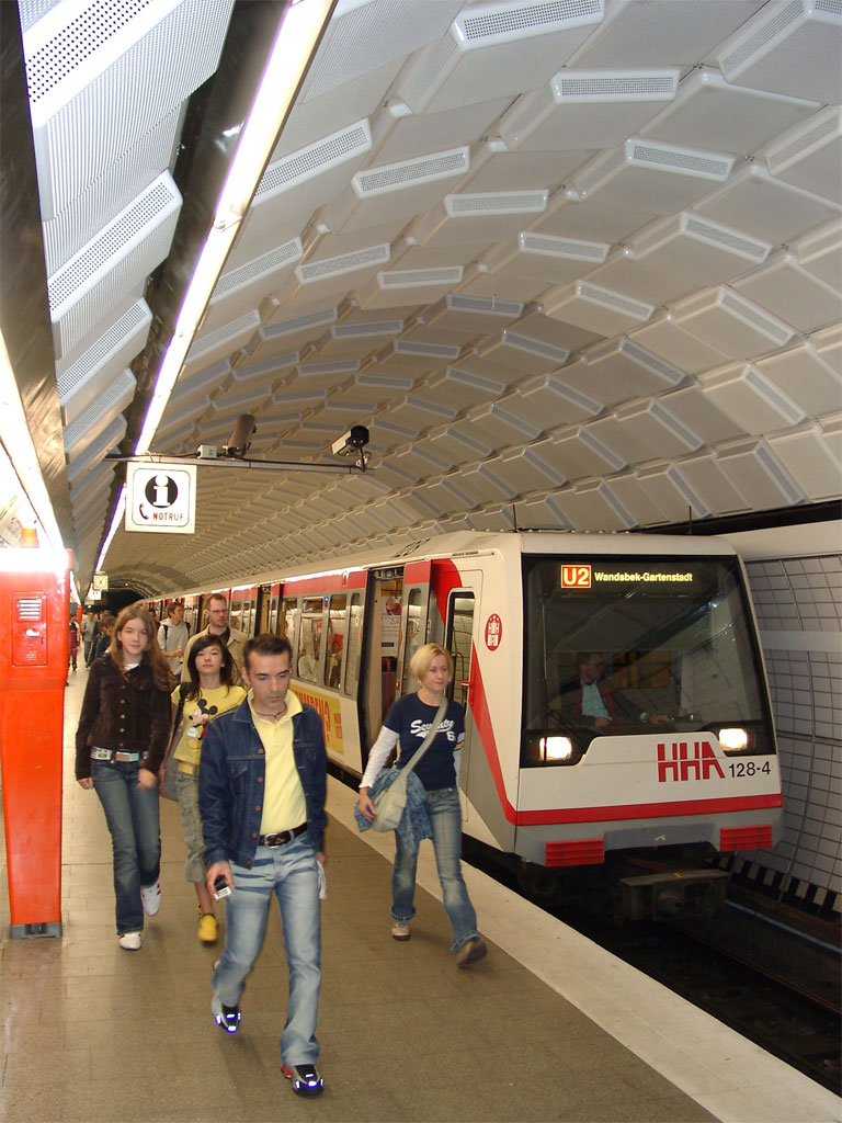 Hamburg U-Bahn's train type DT4 at Hauptbahnhof Nord station; Hamburg, Germany